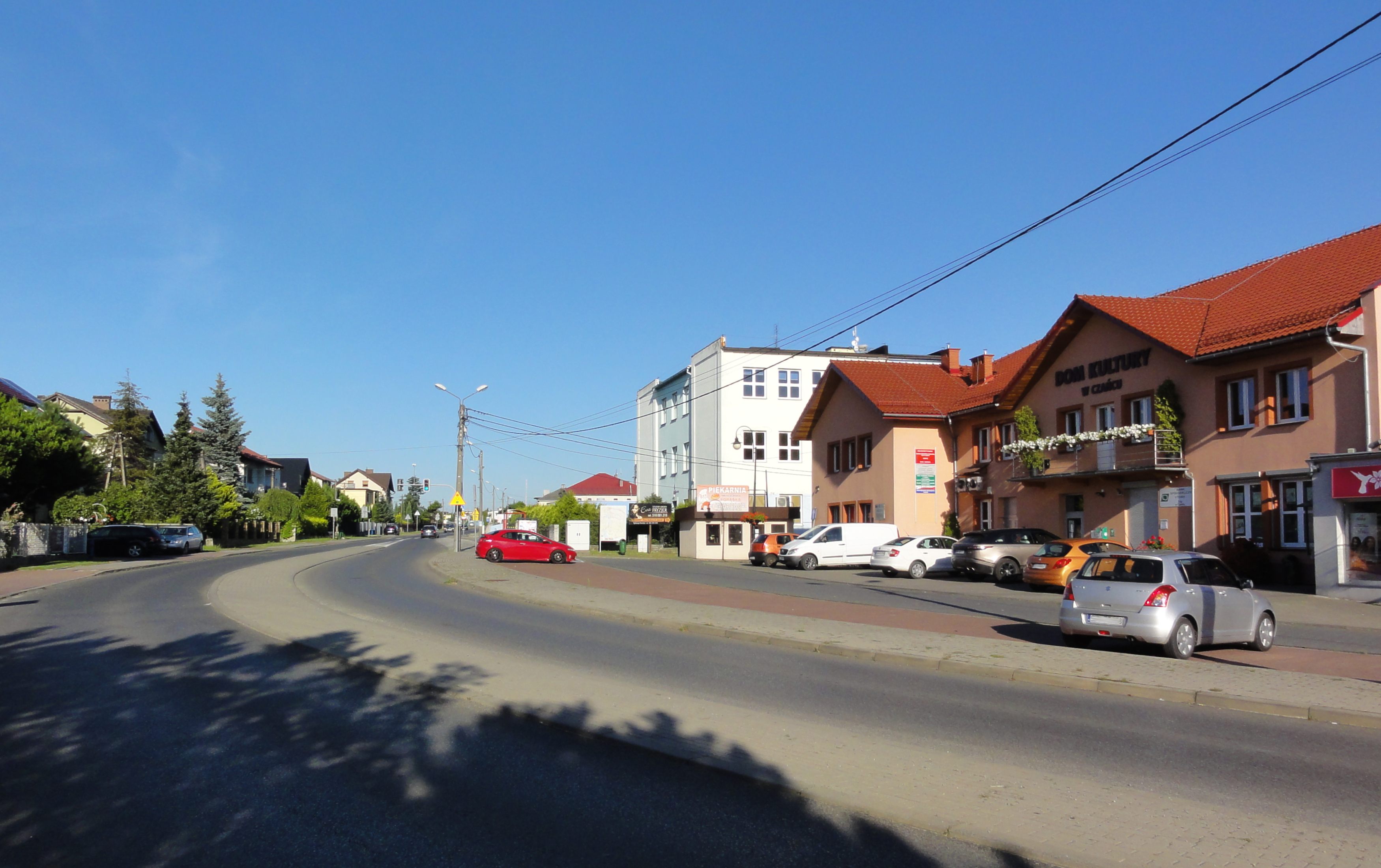 Centre of Czaniec